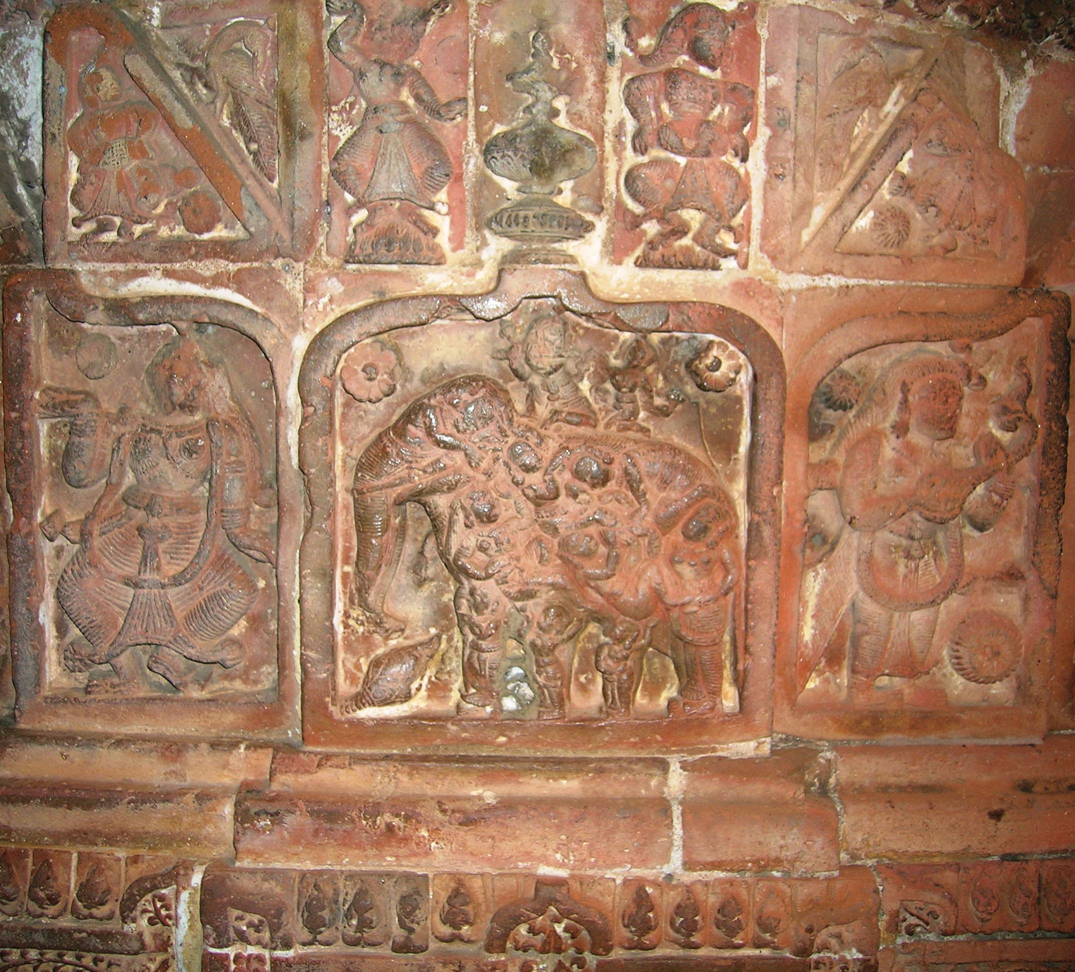 Nabanarikunjara motif at Madan Mohan Temple (c. 1694), Bishnupur, Bankura dist., West Bengal, India.